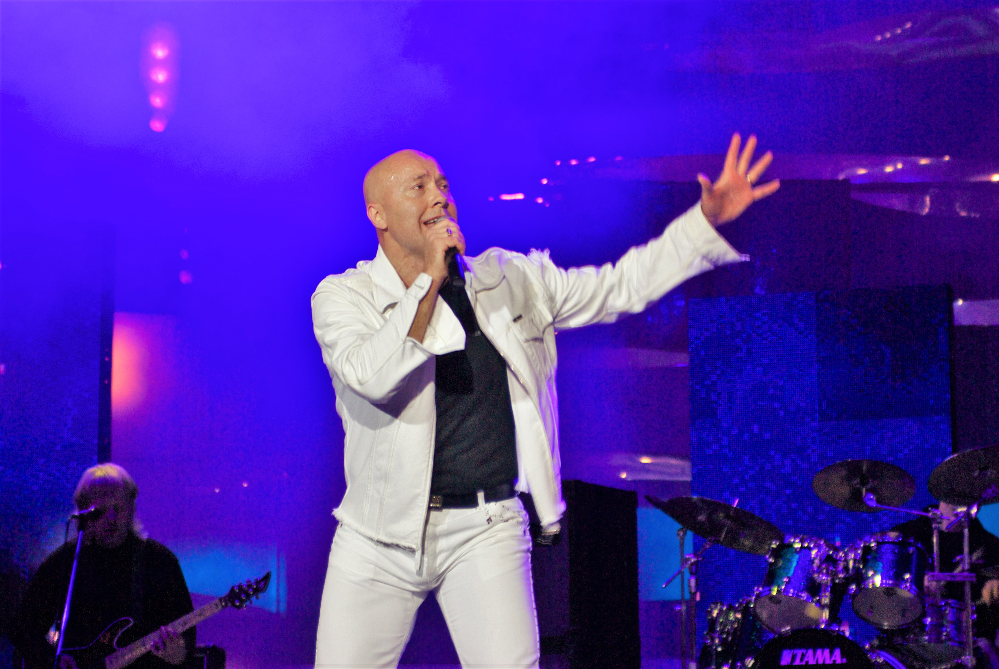 Alexander Soloduha